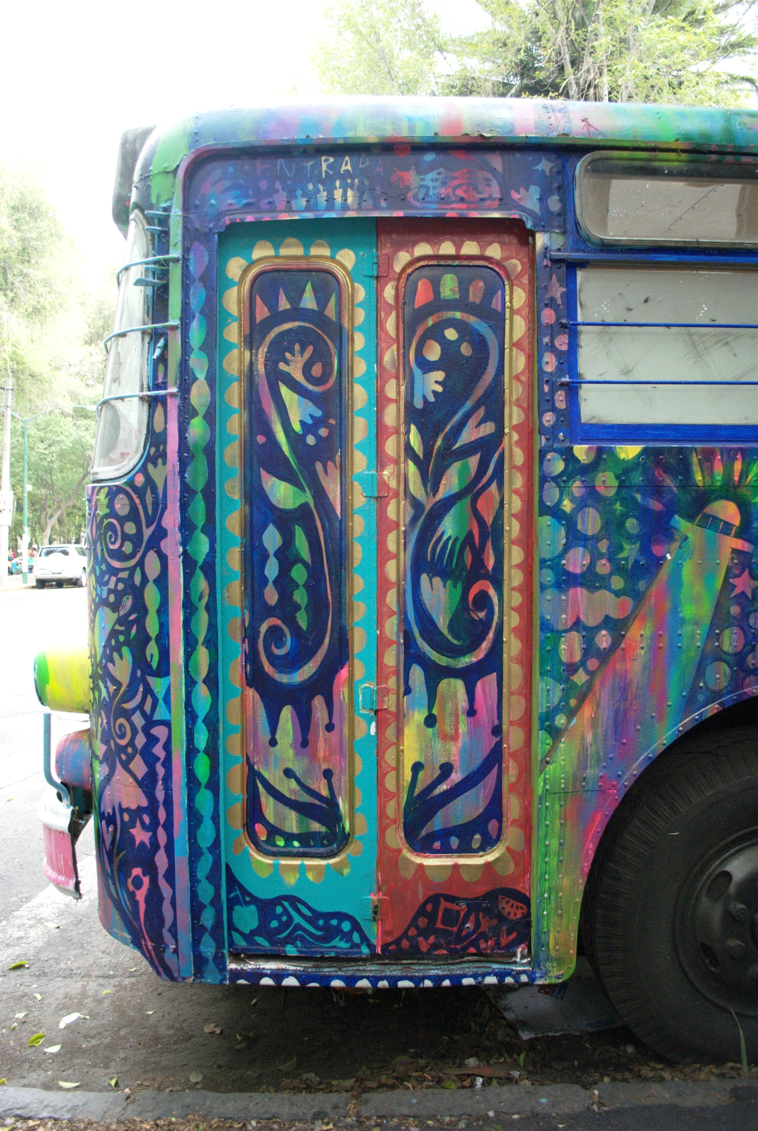 Trolleybus in Colonia Hipodromo painted by Fumiko Nakashima